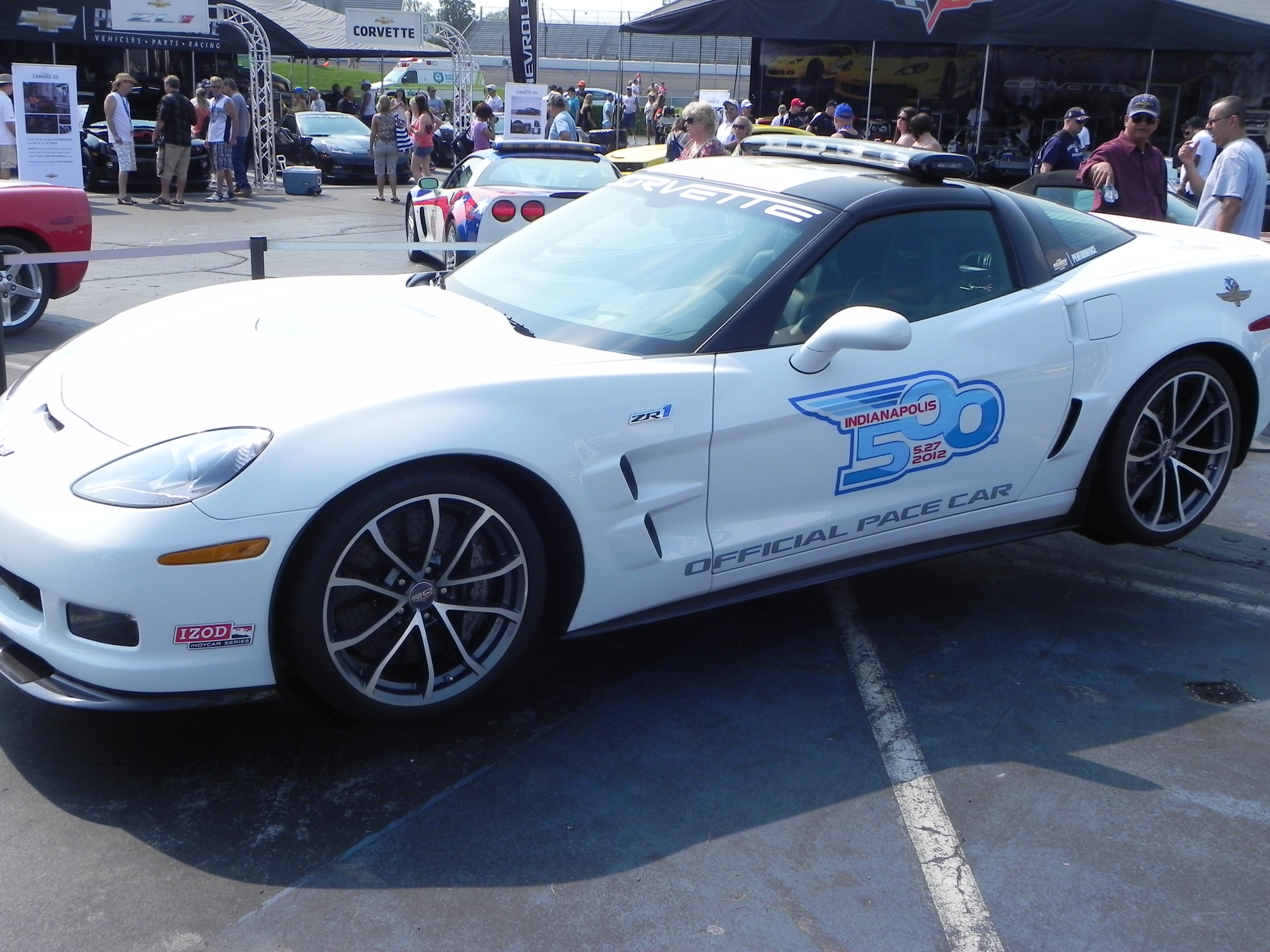 Pace car replica from the 2012 Indianapolis 500